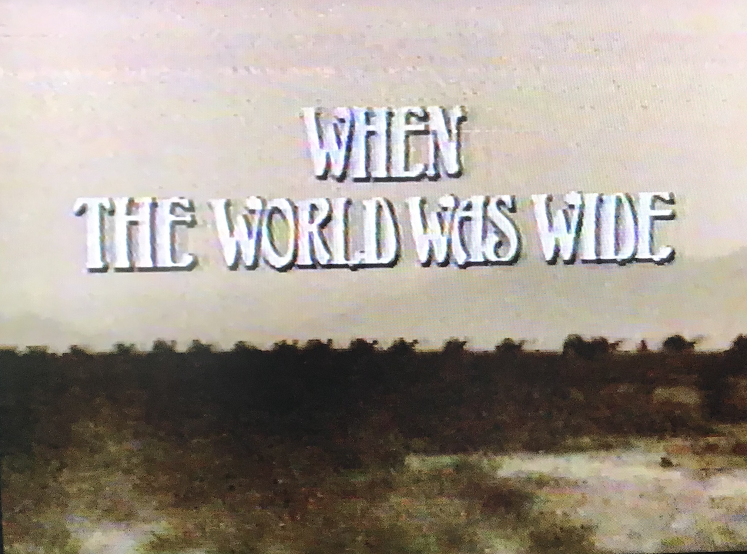 Title card (screen shot) for "When the World was Wide" (1978), American documentary film.